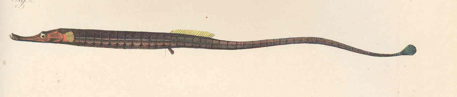 Subject: Syngnathidae, Pipefishes Tag: Fish